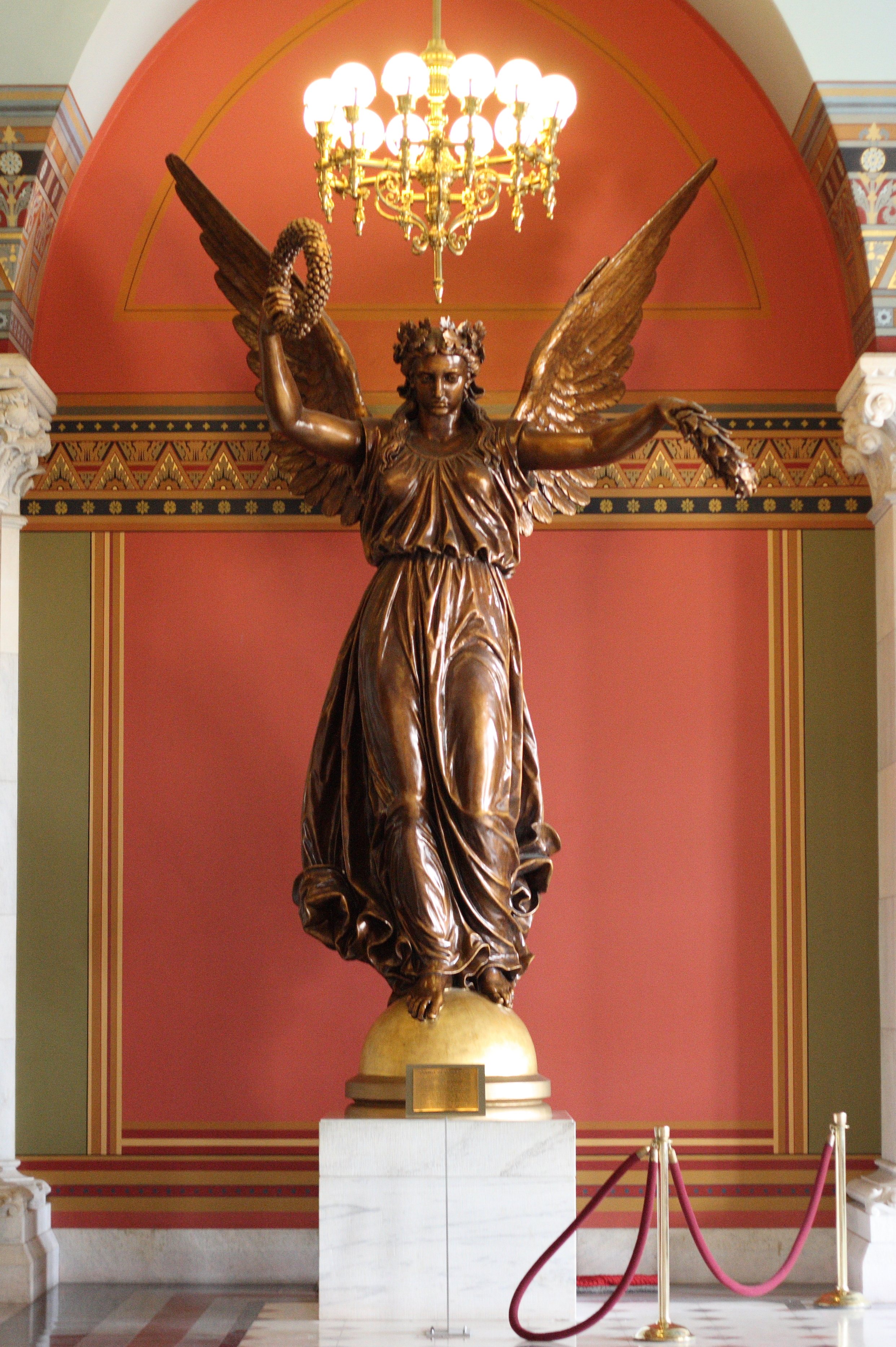 The original plaster model of The Genius of Connecticut, a bronze statue b Randolph Rogers created in 1878, located in the Connecticut State Capitol. Rogers called the piece "The Angel of Resurrection". See the Connecticut General Assembly website for background.